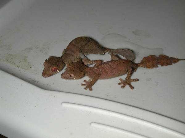 Two pairs of Uroplatus Phantasticus also known as Satanic Leaf-Tail Gecko. Male on right has tail with notches, which makes it look like an eaten ficus leaf.